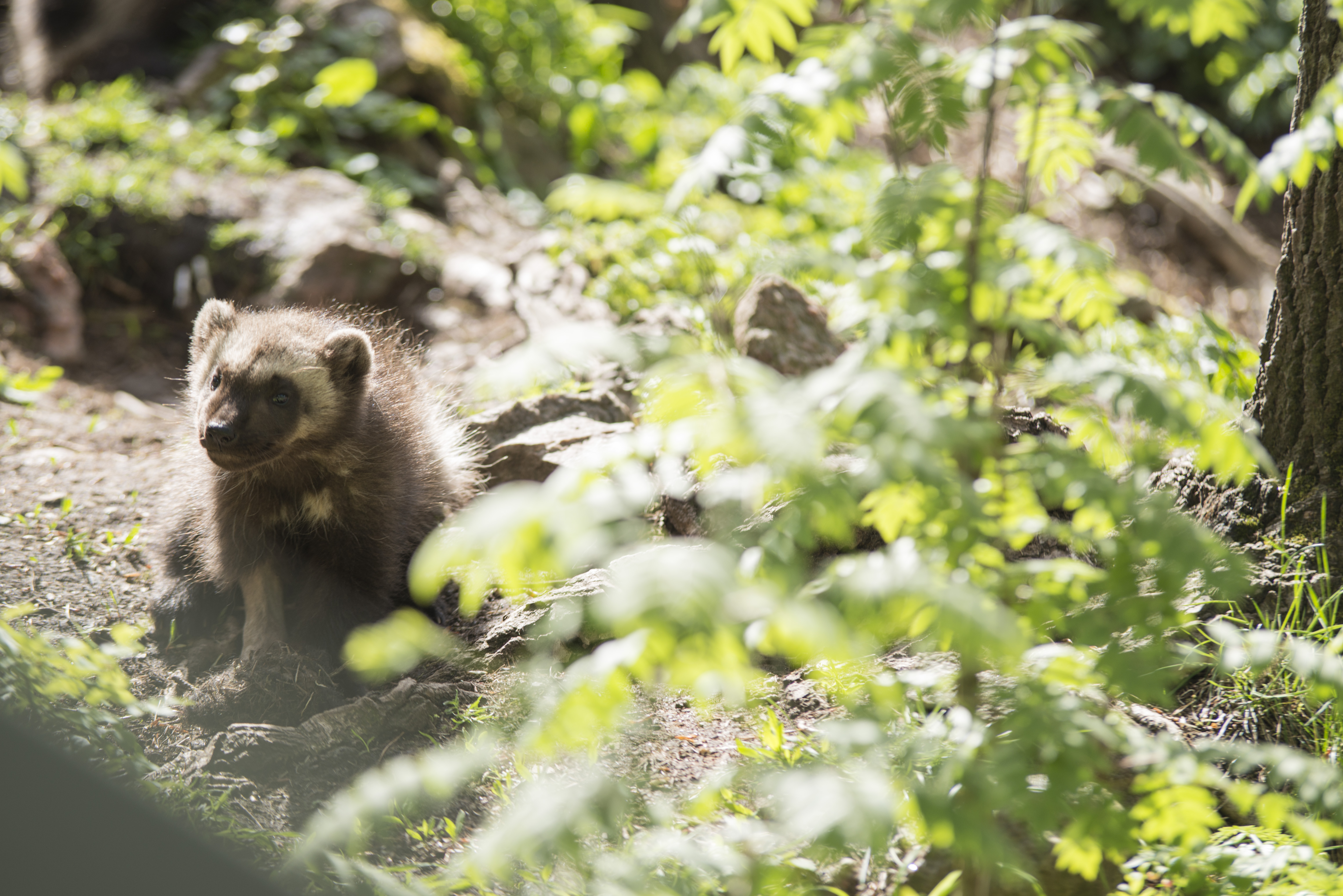 Wolverine pup in Sweden during springtime